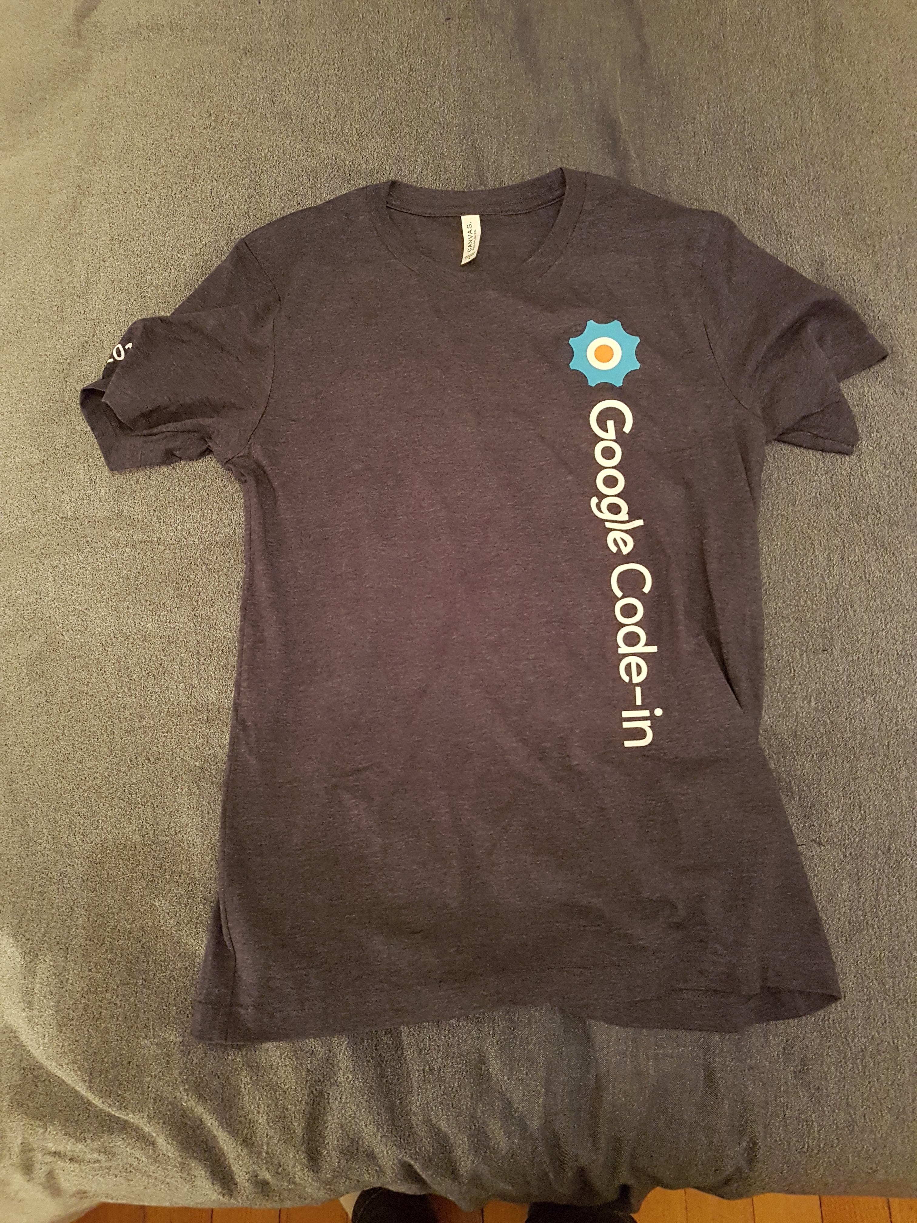 google code in tshirt